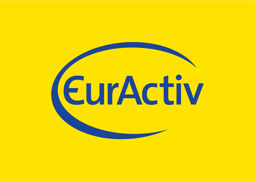 EurActiv Logo